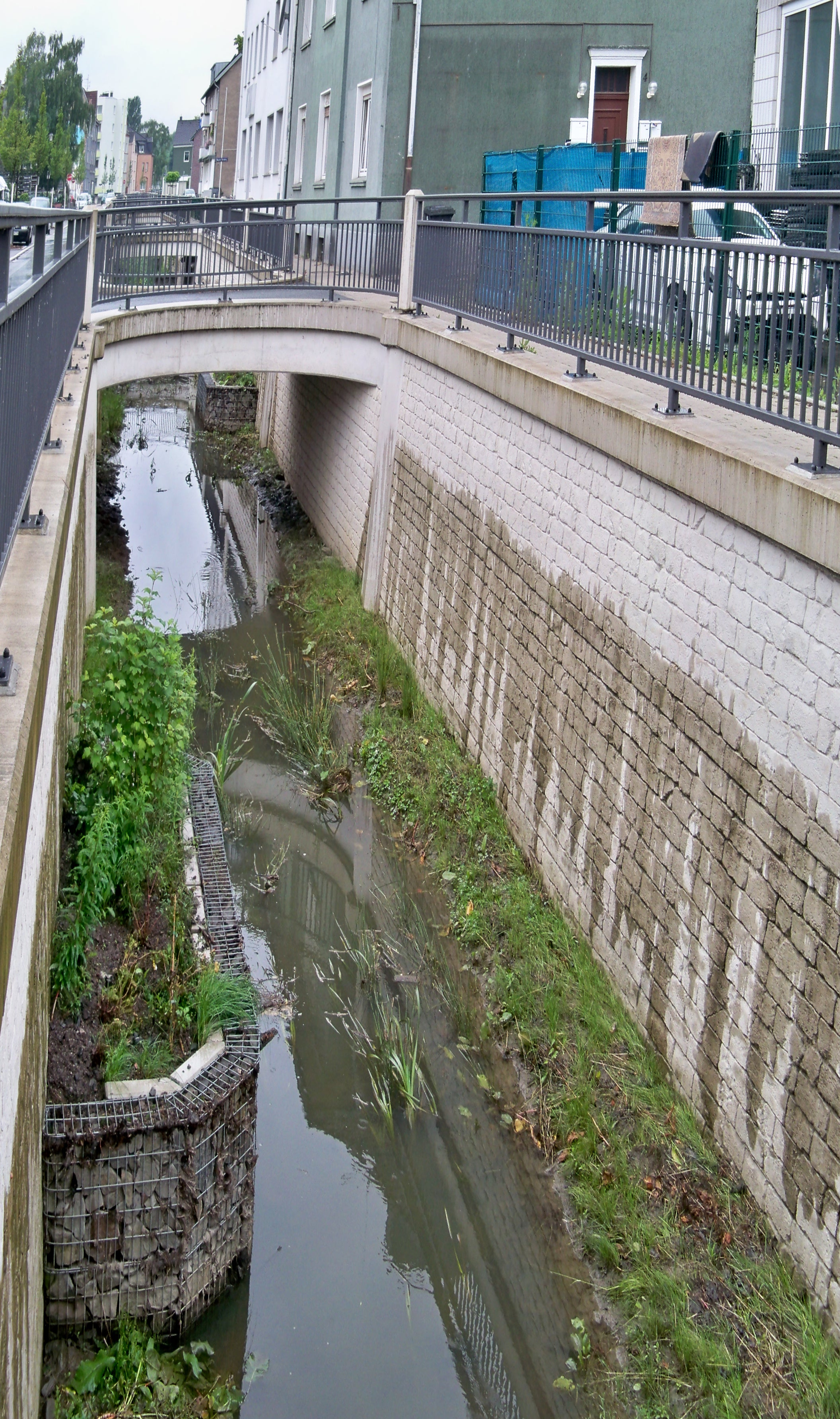 Deininghauser Bach in Castrop-Rauxel. A central part after restoration (2013), formerly under Schulstrasse